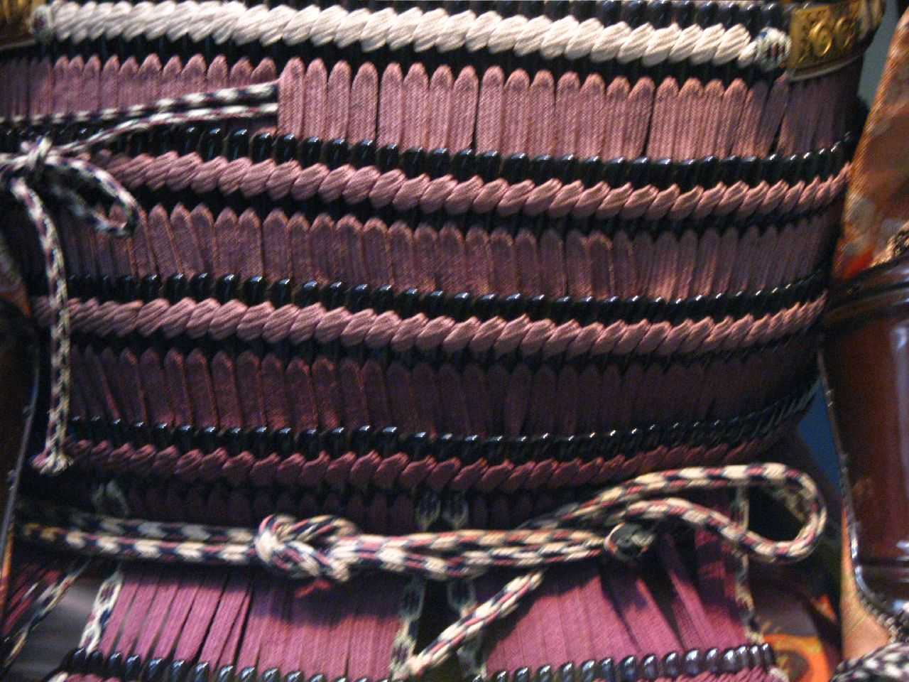 Antique Japanese (samurai) hon kozane dou, close up view.